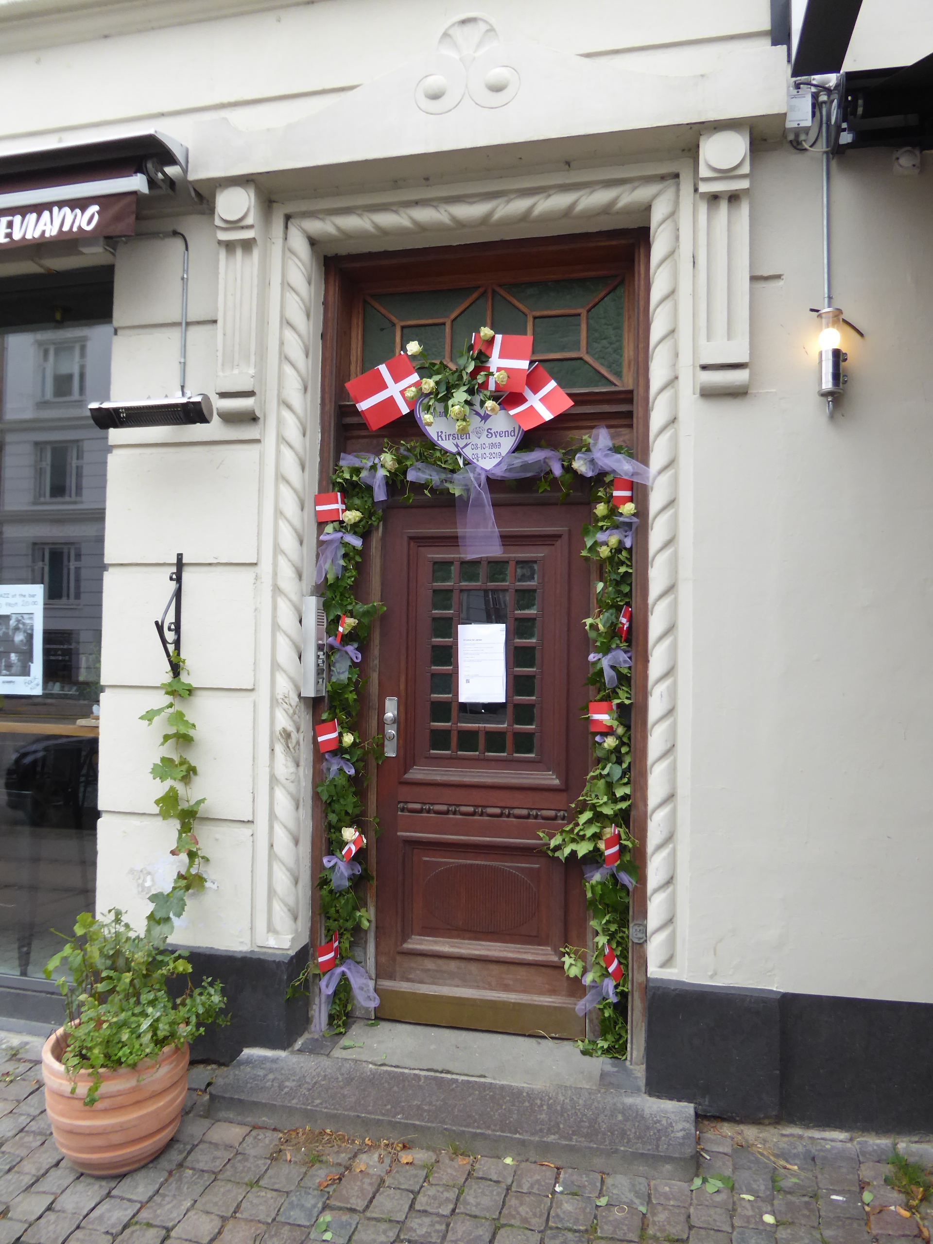 A couple living in Nordre Frihavnsgade in Copenhagen was celebrating their diamond wedding. Such arches tends to be used at weddings and their anniversaries but normally at the doors of apartments or house instead of at the street as here.